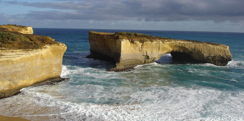 London arch